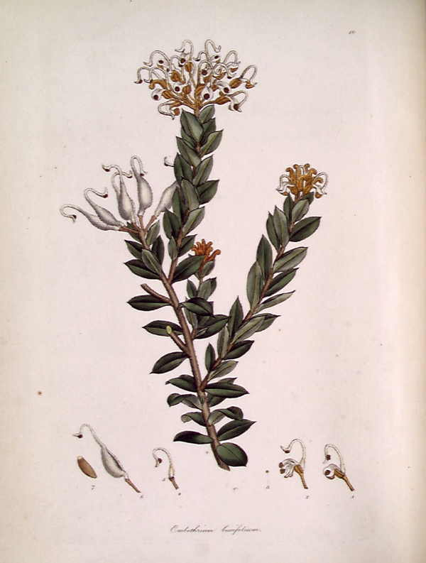 This is an image of a print of a hand coloured engraving by James Sowerby (1757-1822), based on drawing nominally by John White but probably by the convict artist Thomas Watling. It appeared as Tab. X in James Edward Smith's 1793 A Specimen of the Botany of New Holland. The plant depicted is Grevillea buxifolia (Sm.) but was titled Embothrium buxifolium. The accompanying text at the source of the digital image gives print : engraving with hand colouring ; plate mark 23.7 x 15.0 cm. on sheet 29.0 x 21.3 cm. Engraved on plate u.r.: 10. Title engraved on plate l.c.